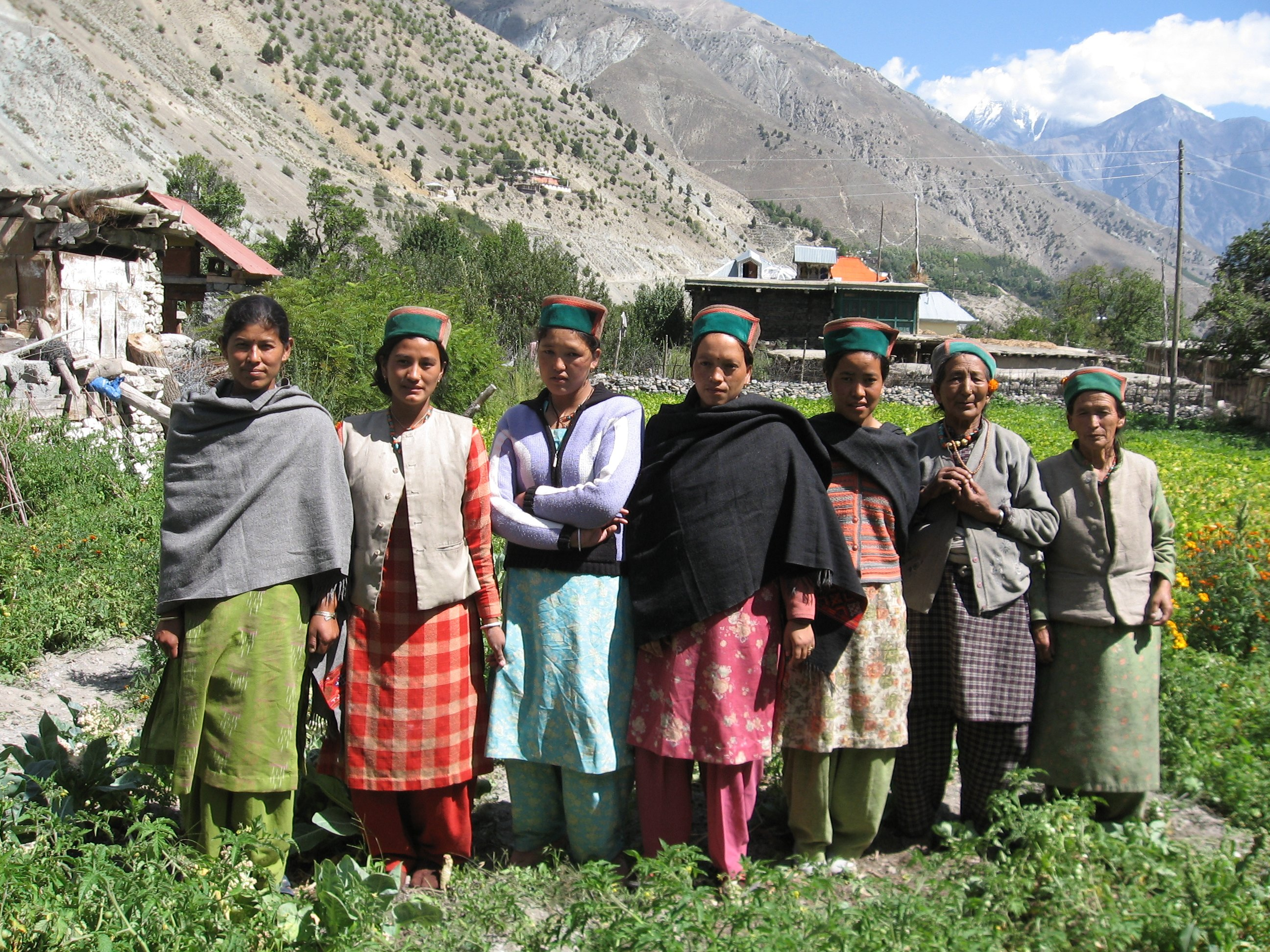 A group of women in a rural area of Nepal